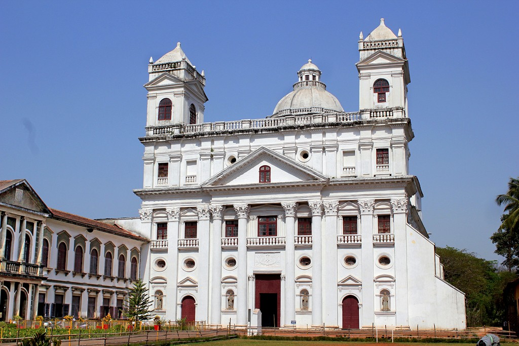 Largo of St. Cajetan together with other monuments